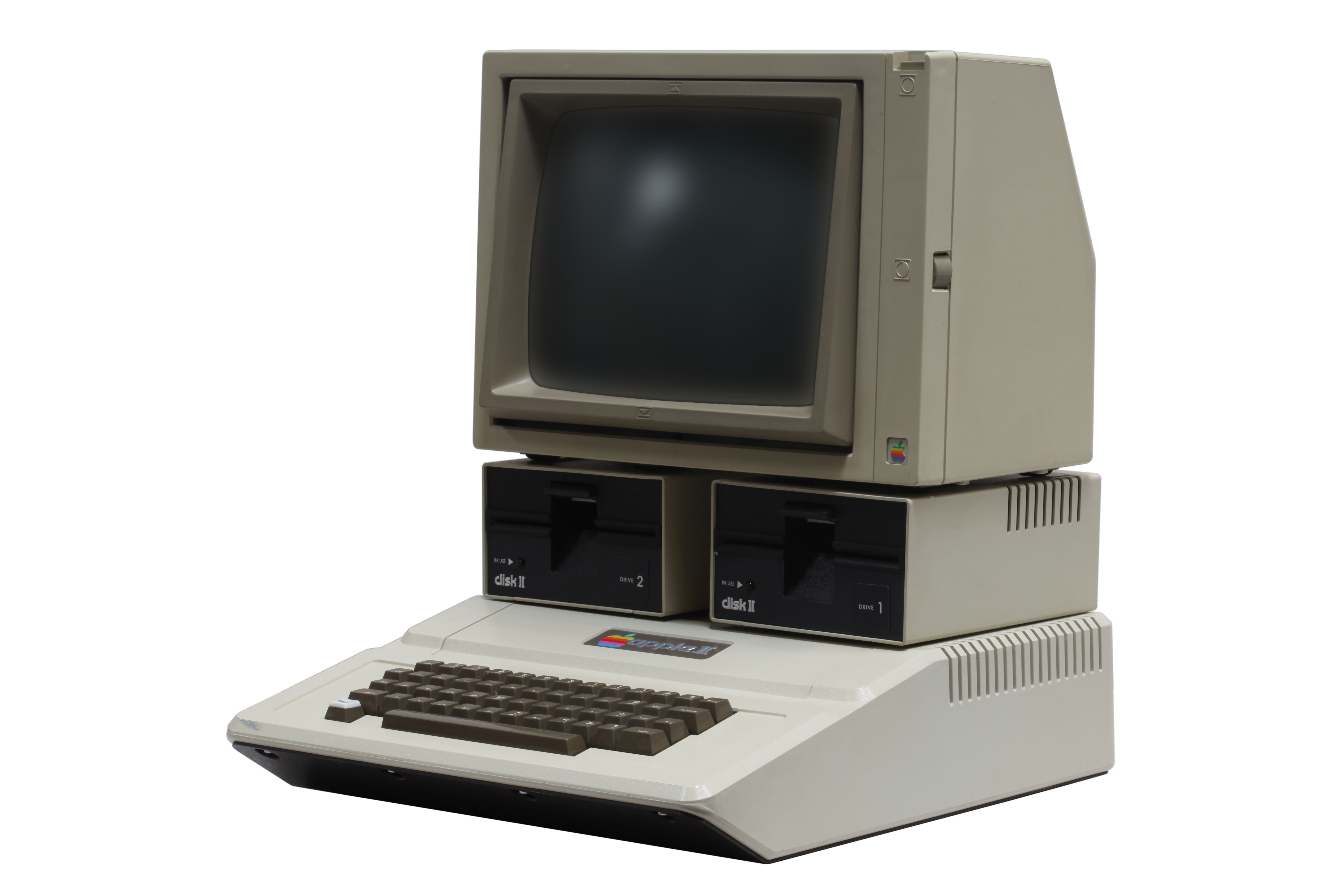 Apple II computer. On display at the Musée Bolo, EPFL, Lausanne.